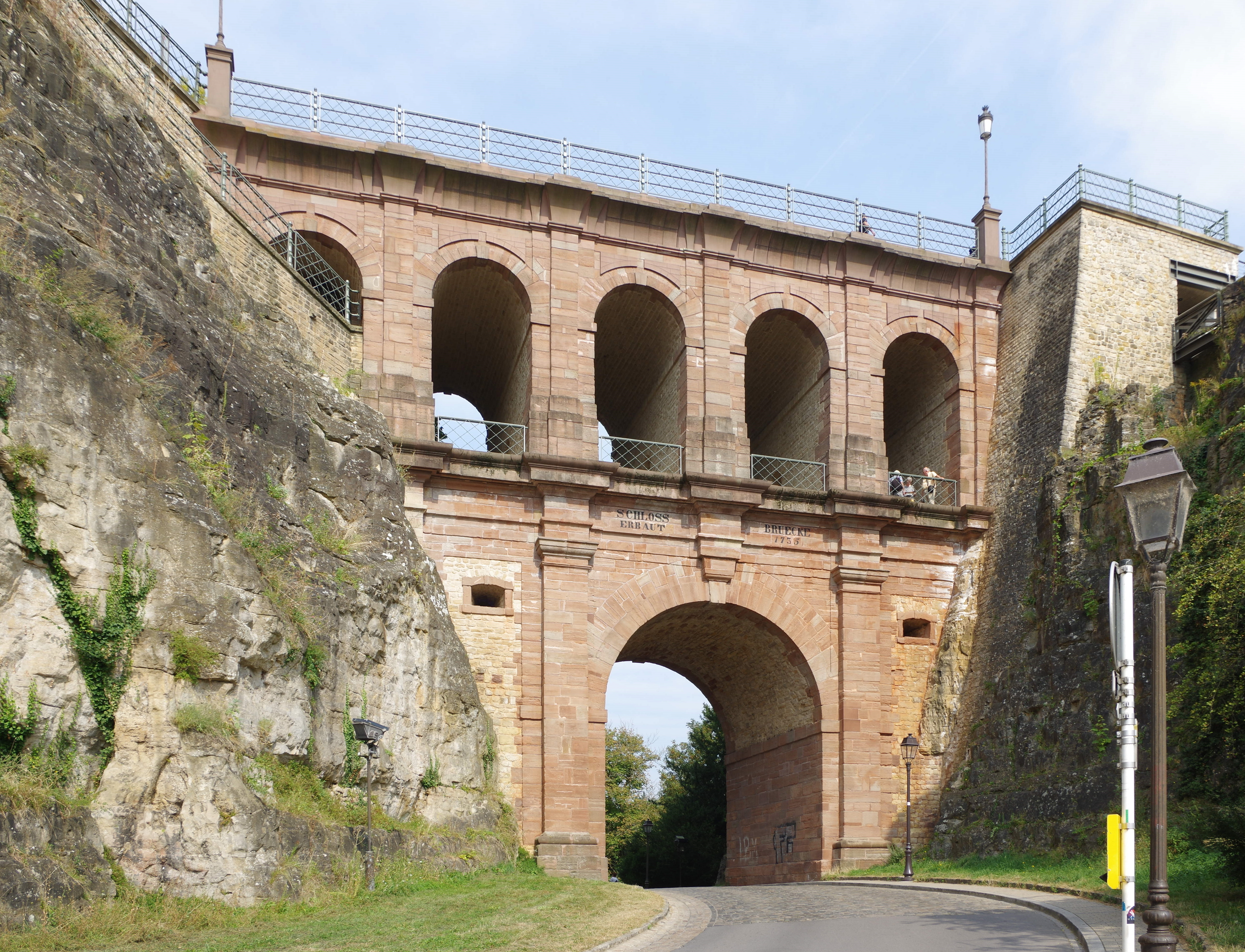 Luxembourg city, Pont du Château, castle bridge